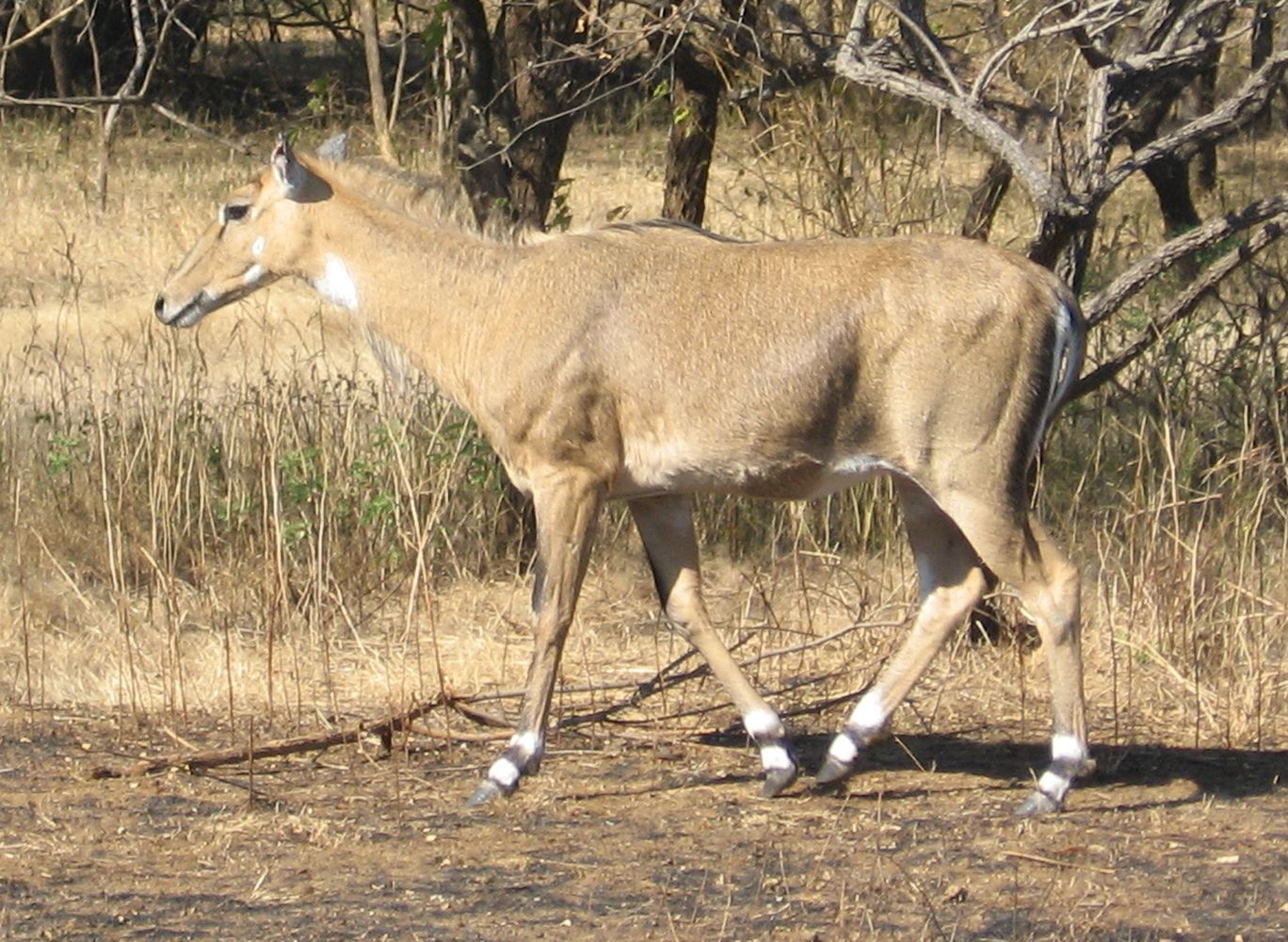 Female Nilgai, Gir forest, Gujarat, India